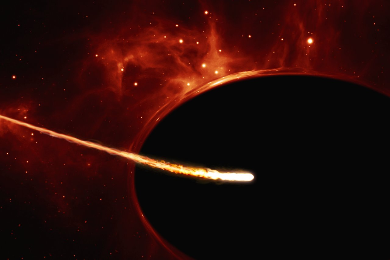 This artist’s impression depicts a Sun-like star close to a rapidly spinning supermassive black hole, with a mass of about 100 million times the mass of the Sun, in the centre of a distant galaxy. Its large mass bends the light from stars and gas behind it. Despite being way more massive than the star, the supermassive black hole has an event horizon which is only 200 times larger than the size of the star. Its fast rotation has changed its shape into an oblate sphere. The gravitational pull of the supermassive black hole rips the the star apart in a tidal disruption event. In the process, the star was “spaghettified” and shocks in the colliding debris as well as heat generated in accretion led to a burst of light.